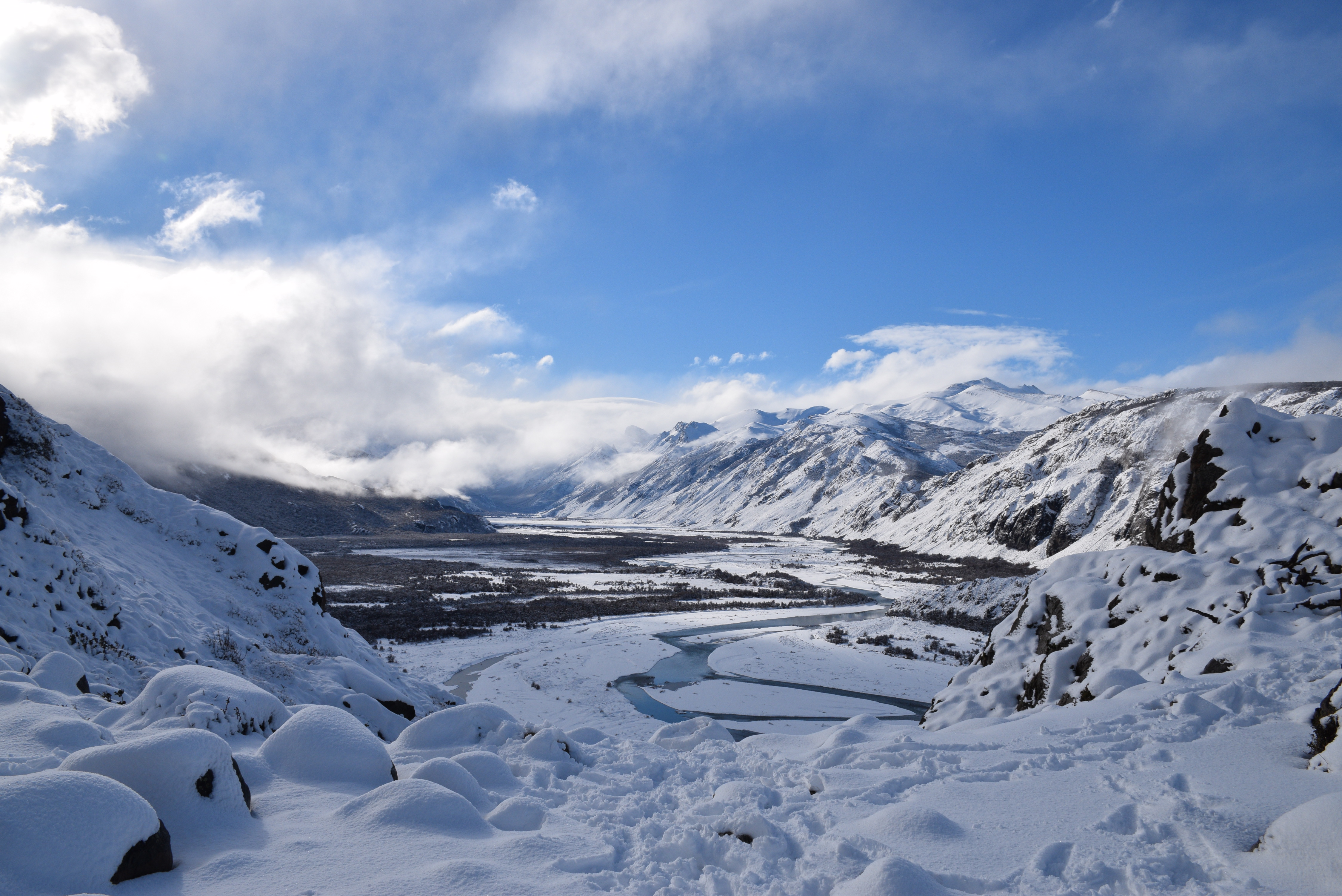 Hiking trails leading north from El Chaltén provide stunning views across the Las Vueltas River.